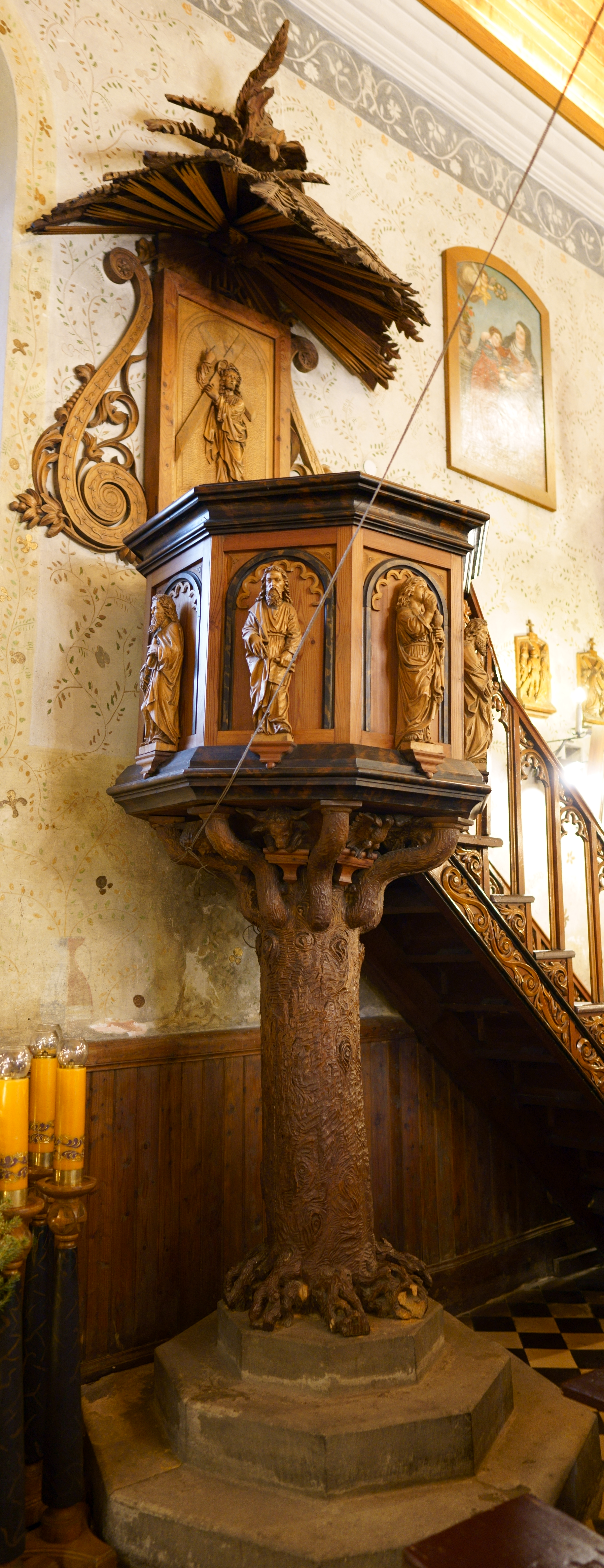 Church of St. Jacob in Myślenice